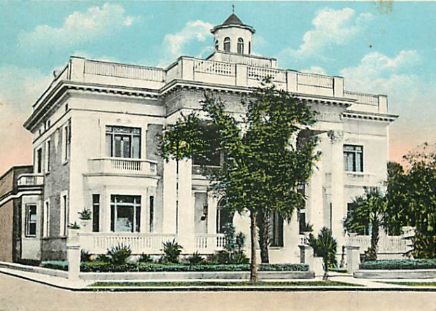 Villa Margherita, 4 South Battery, Charleston, South Carolina was being used as a hotel when it was the subject of this postcard dated 1921.